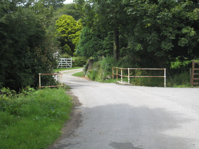 Bridge at Tolcarne-Wartha Crossing a small tributary of the River Cober.